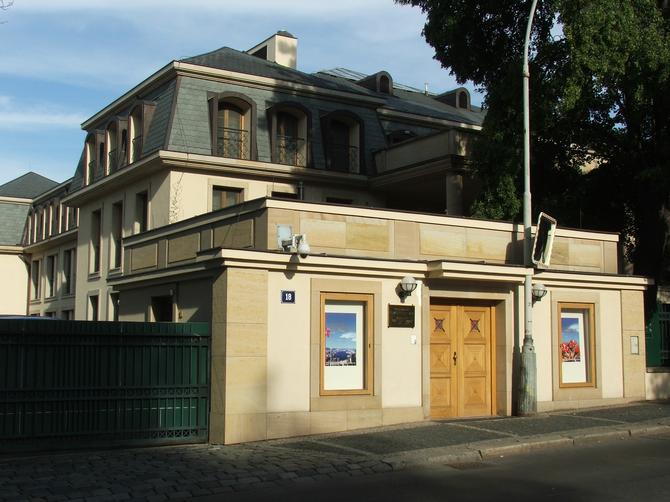 Embassy of People's Republic of China in Prague - Bubeneč, Czechia